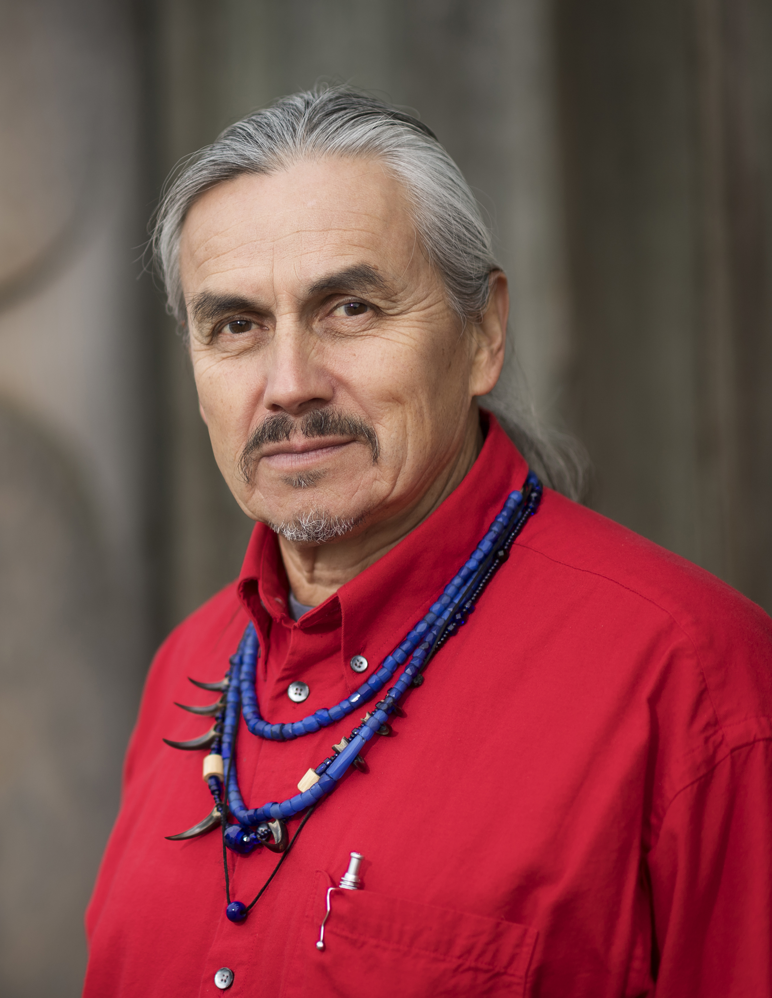 James Hart, an accomplished Haida artist and master carver. Hart is among 10 distinguished individuals to receive honorary degrees from Simon Fraser University in 2017.